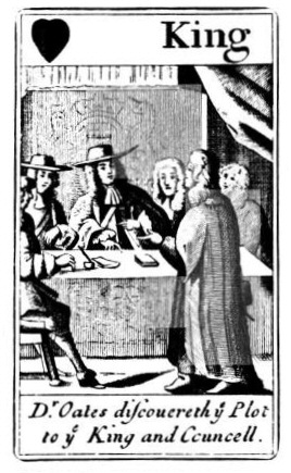 Popish Plot Playcard 2 Oates discovers the Plot to the King [discovers = reveals]